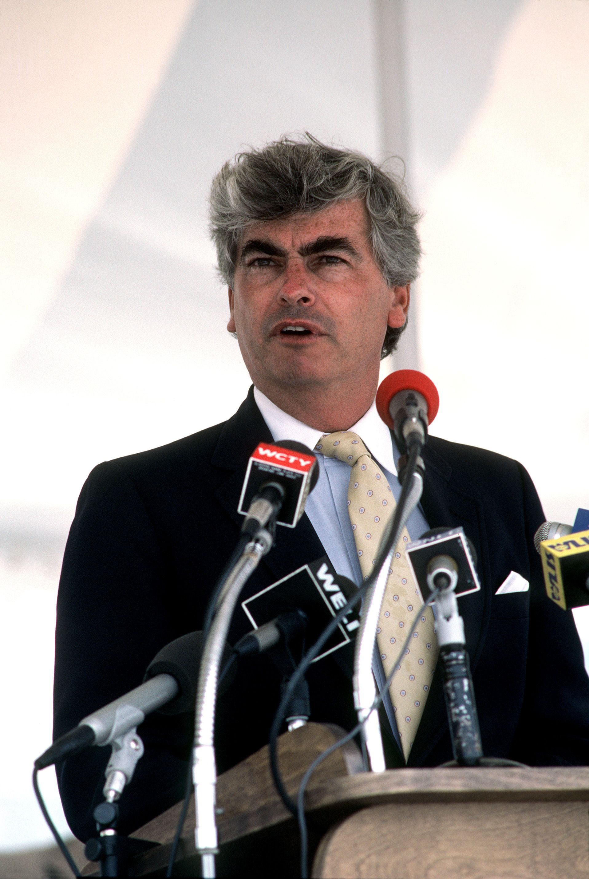 "Senator Christopher Dodd [incorrectly states Governor William A. O'Neill in original caption] of Connecticut speaks during a ceremony welcoming the nuclear-powered attack submarine ex-USS NAUTILUS (SSN 571) back to its original home port. The NAUTILUS will become a memorial at the Submarine Force Library Museum. Location: NAVAL SUBMARINE BASE, NEW LONDON, CONNECTICUT (CT)"